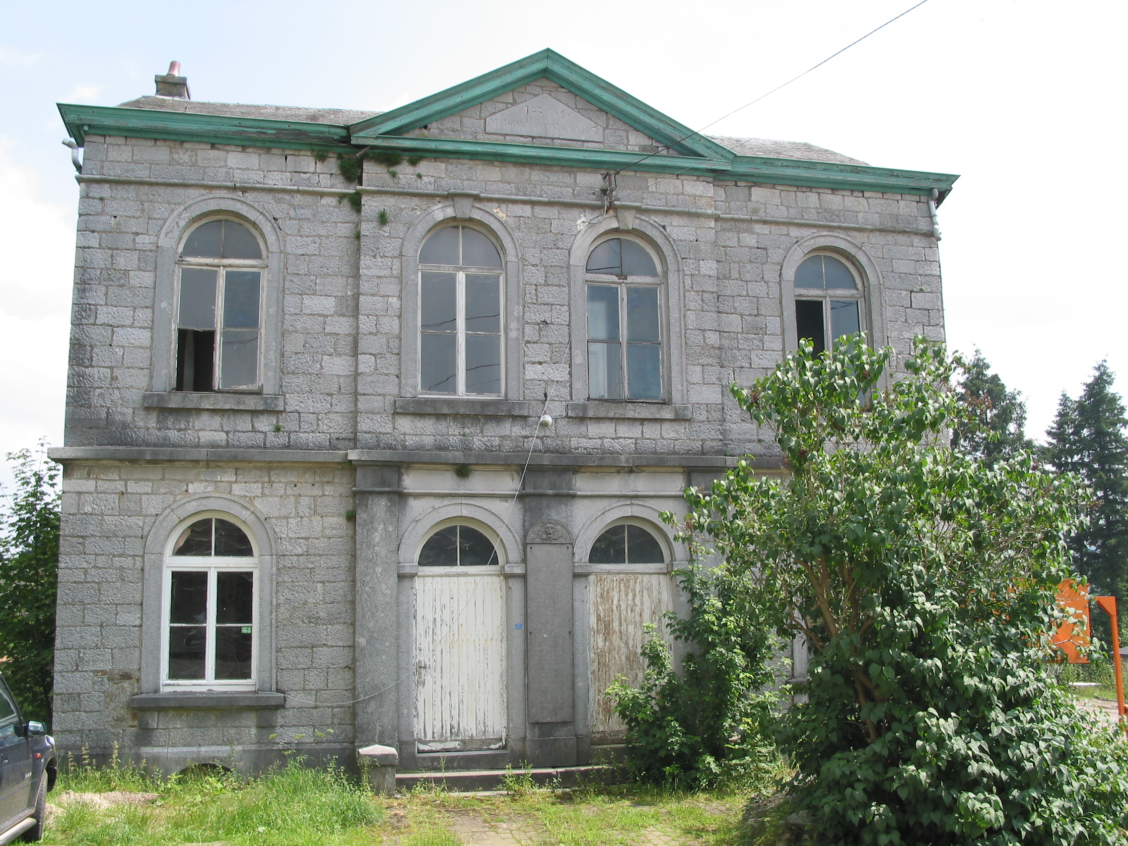 Chevron (Belgium), the superb former town hall (1866) and its comemorative plate for the victims of the first world war.